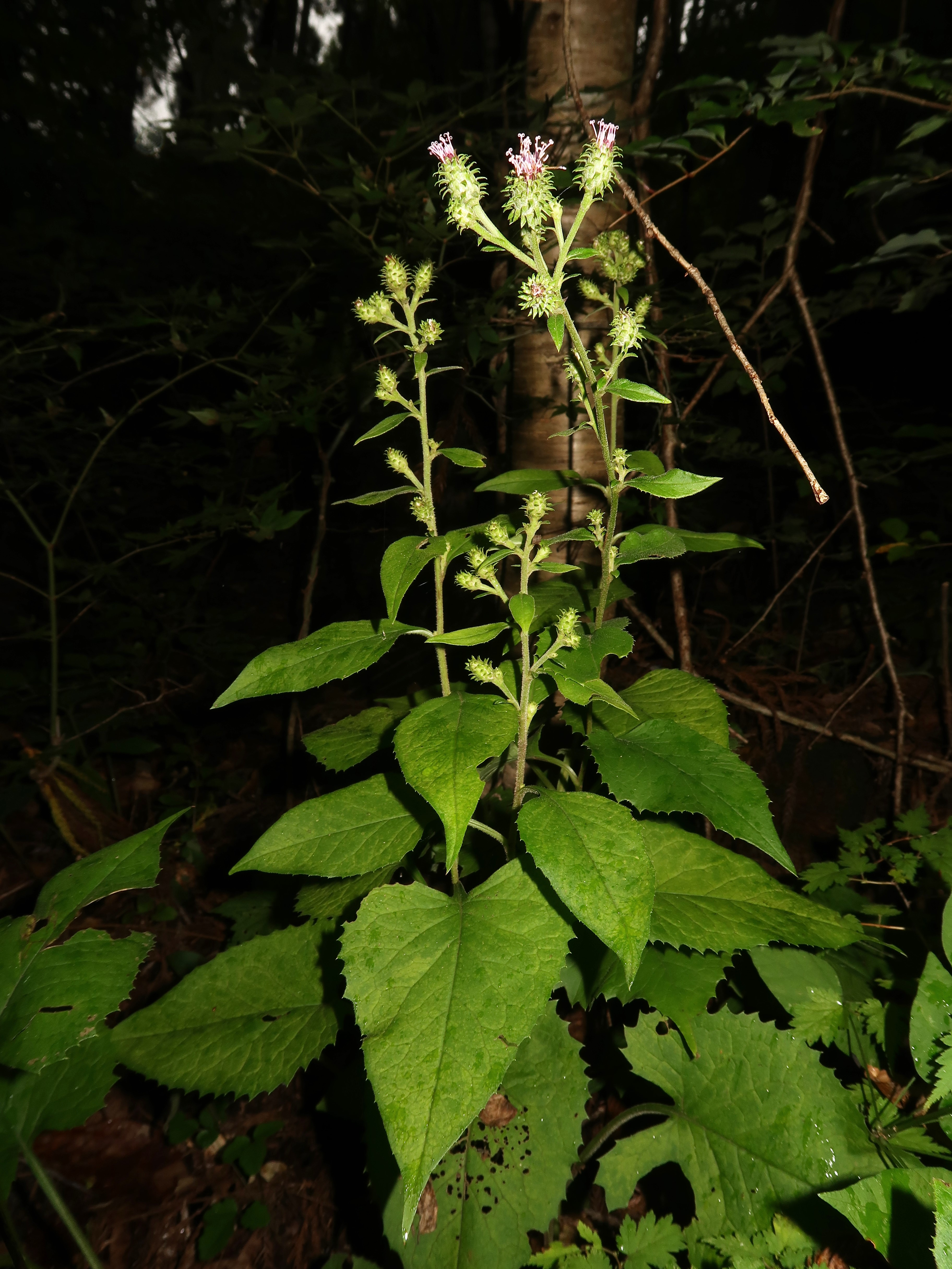 Saussurea savatieri, Mount Sankomuro-san, Ibaraki pref., Japan